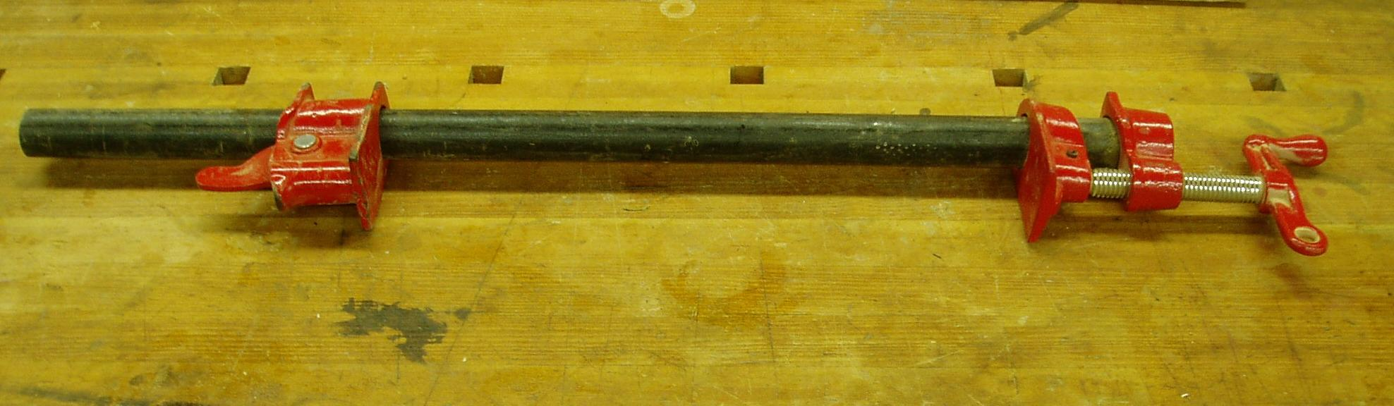 Picture of pipe clamp taken 18 September, 2005 by Luigi Zanasi (myself) on my workbench using a Olympus digital camera.